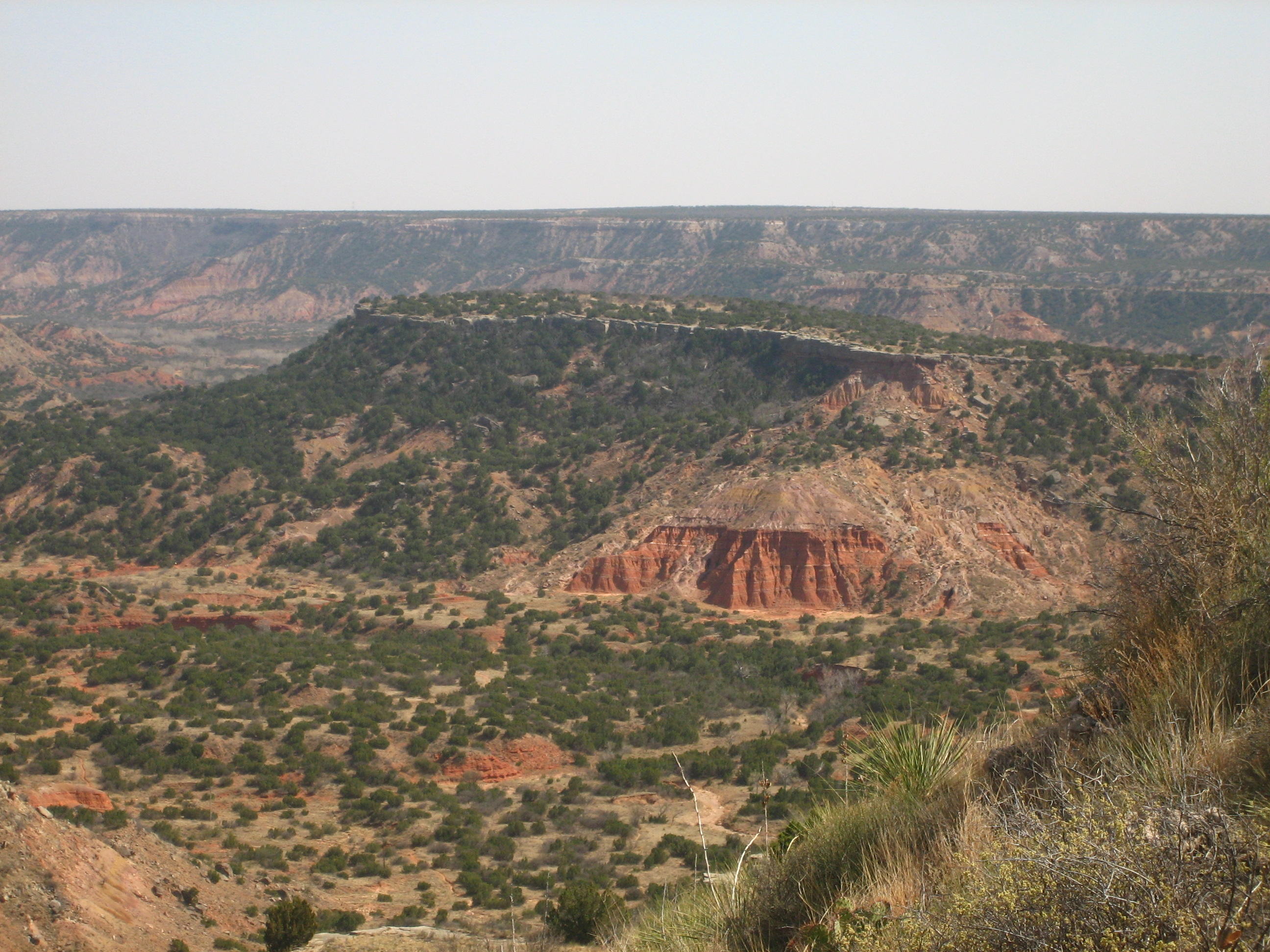 I took this picture on April 5, 2008.Billy Hathorn (talk) 01:56, 27 June 2008 (UTC)